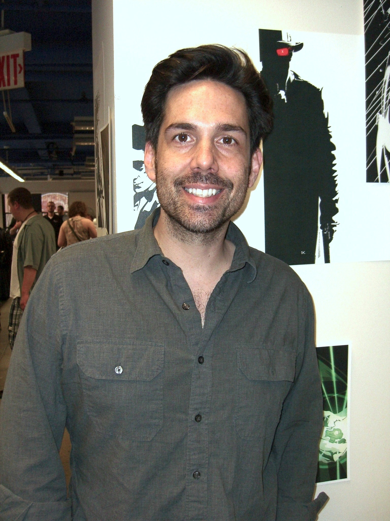 Comics creator Dennis Calero at the Big Apple Convention in Manhattan, May 21, 2011. Photographed by Luigi Novi. This photo is not in the public domain. It may, however, be used, modified and published for any purpose, free of charge, only if the photographer is properly credited, either by linking the photograph to this page, or with an easily visible credit to the photographer placed near the photo in each instance in which it is used. (See licensing information below.) Publication of this photo without this proper attribution constitutes copyright infringement. If you have any questions, you can contact me on my Wikipedia Talk Page.